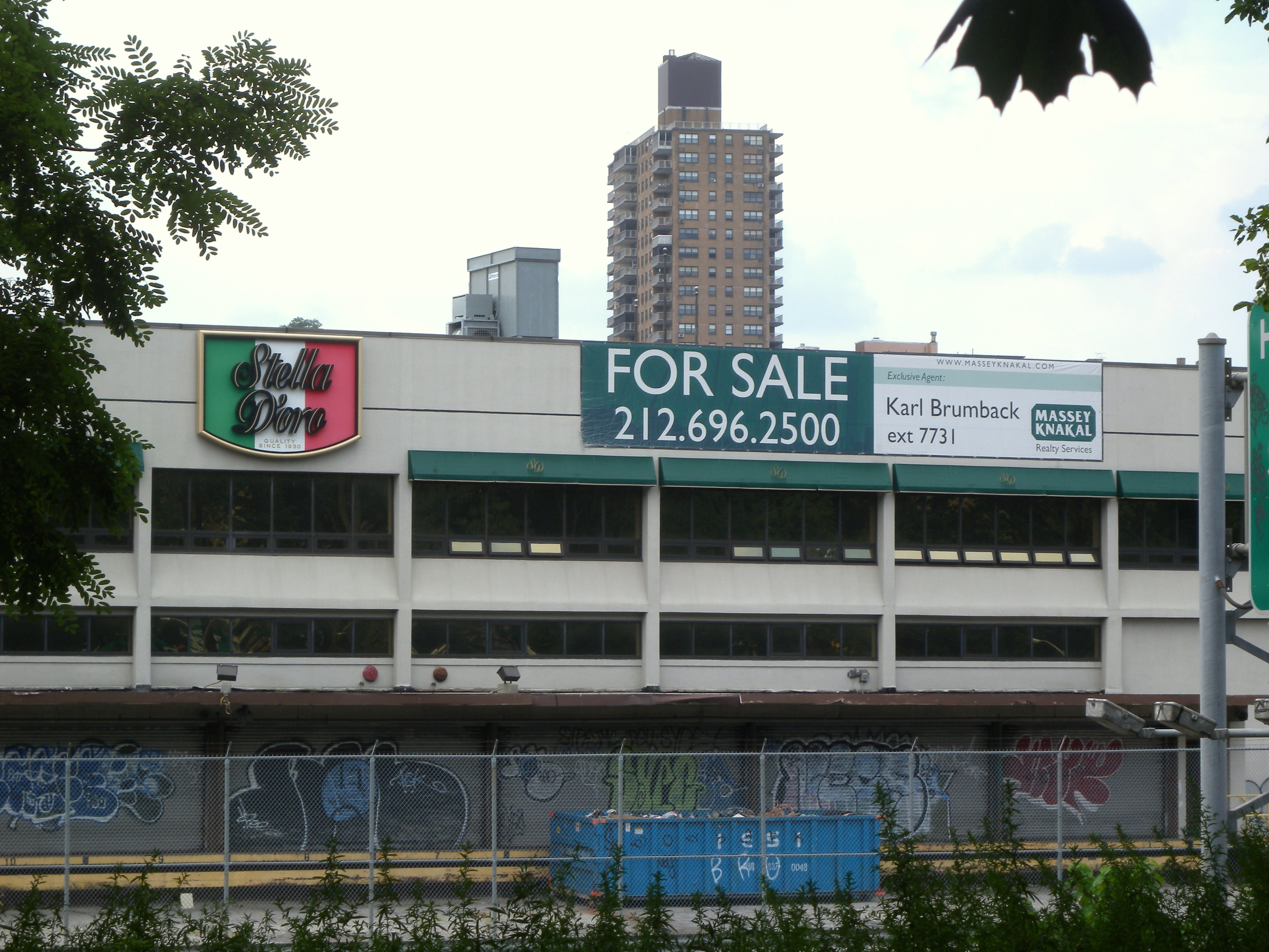 Looking west across the Deegan Expressway at Stella D'Oro, closed and for sale. The building was demolished in 2012 to build a BJ's Wholesale Club.